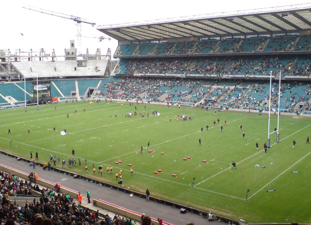 Twickenham